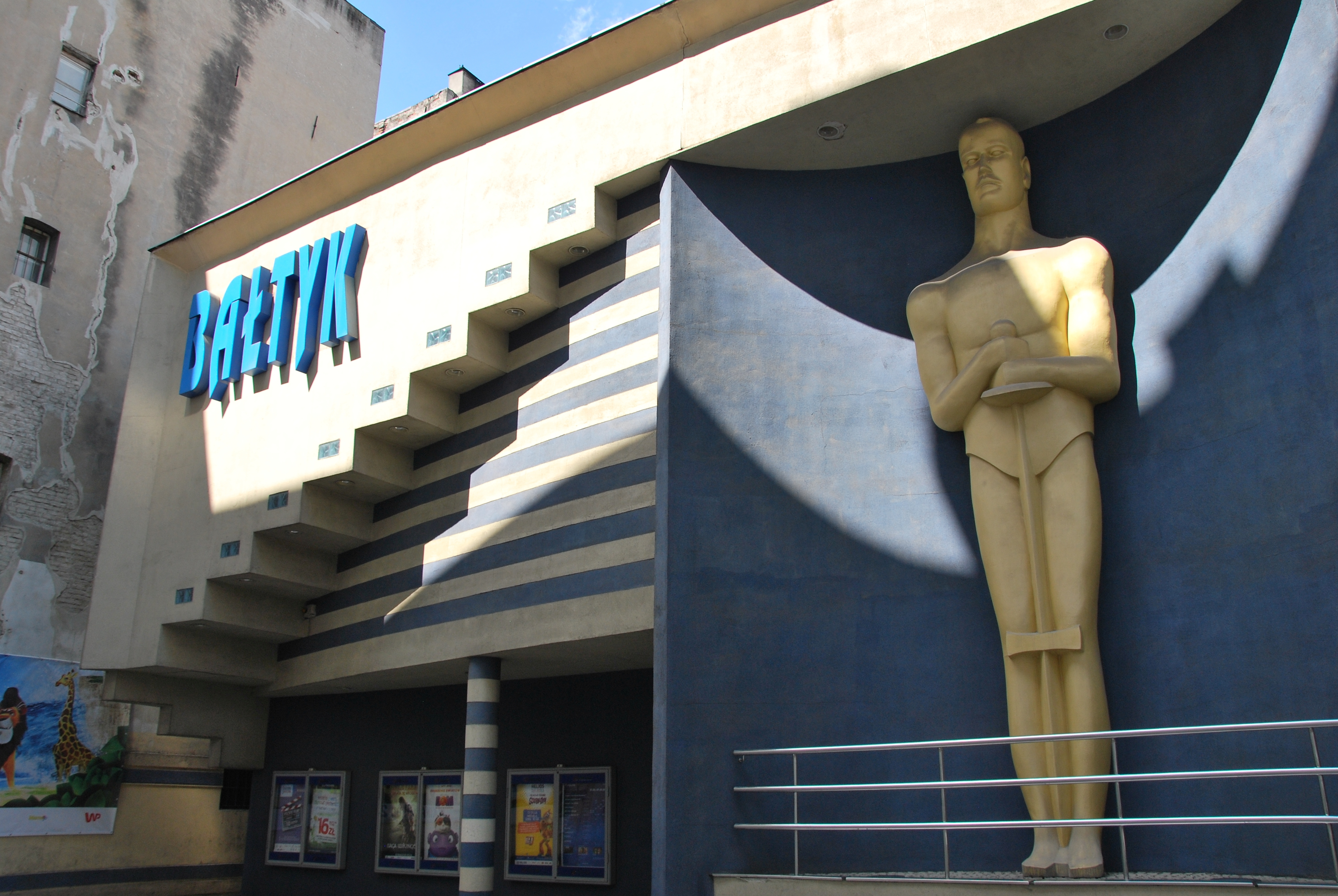 Bałtyk cinema, Łódź Narutowicza Street